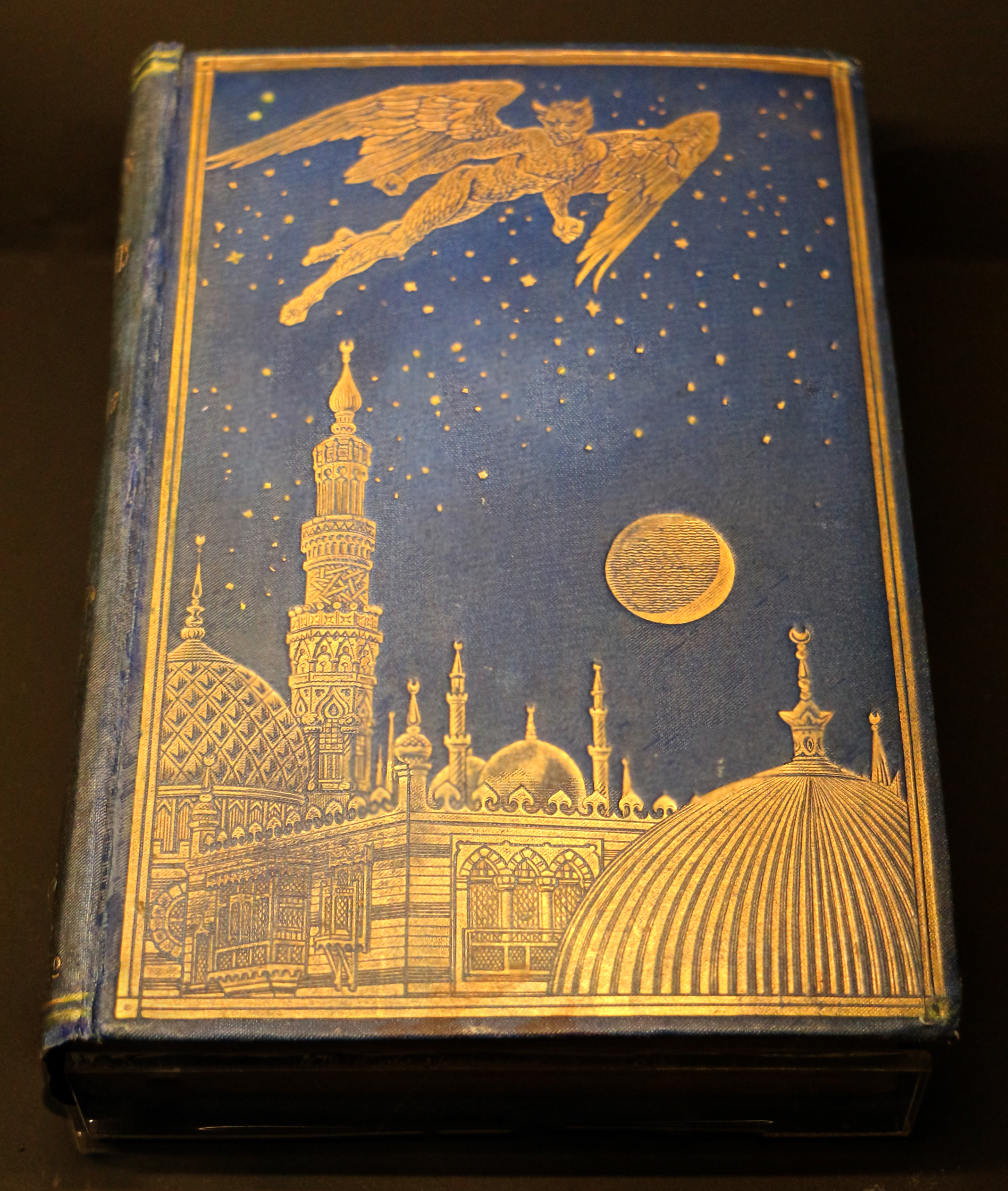 Books in Florence